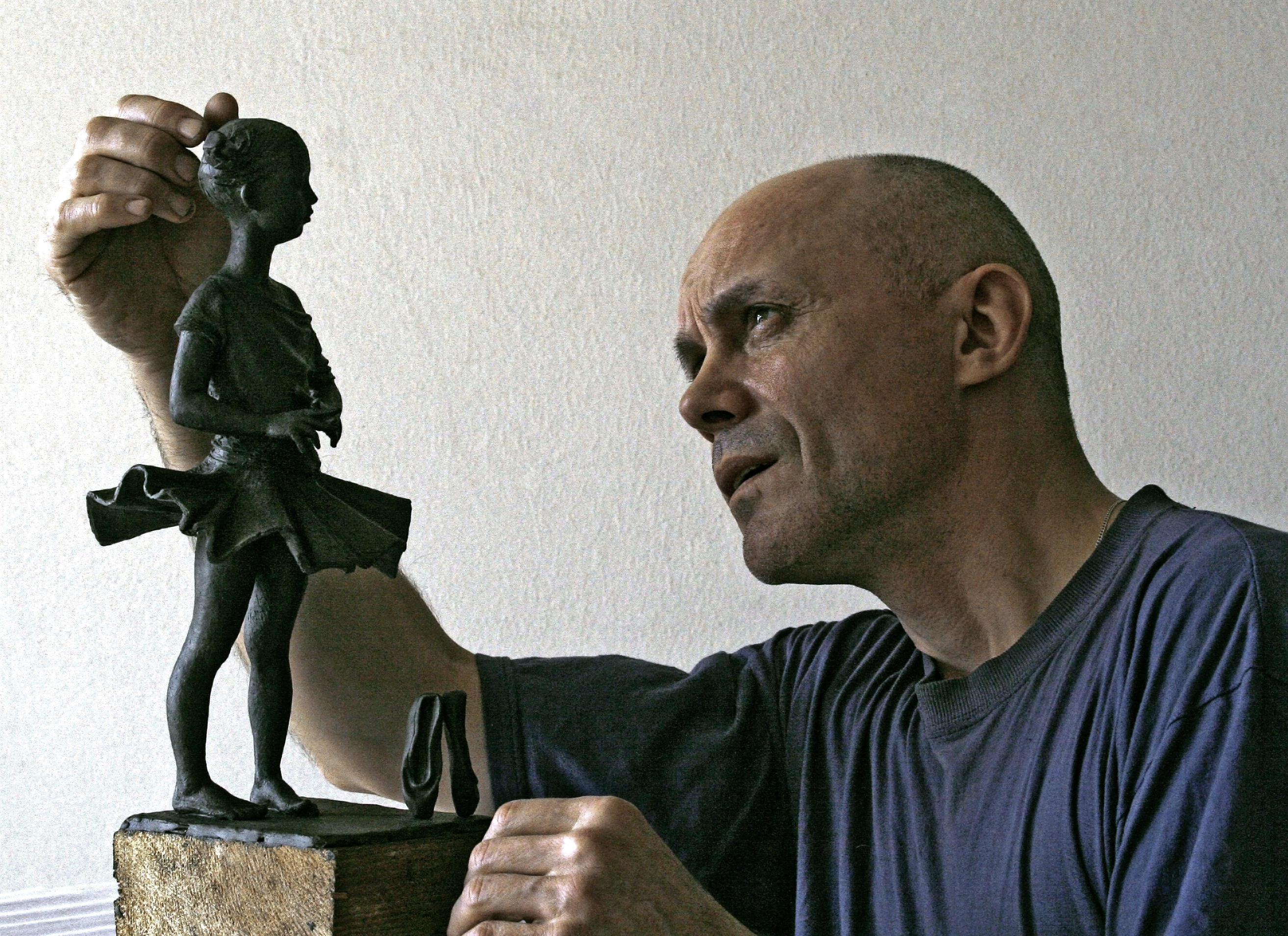 Belarusian sculptor and photographer Eugeny Kolchev. Selfportrait.